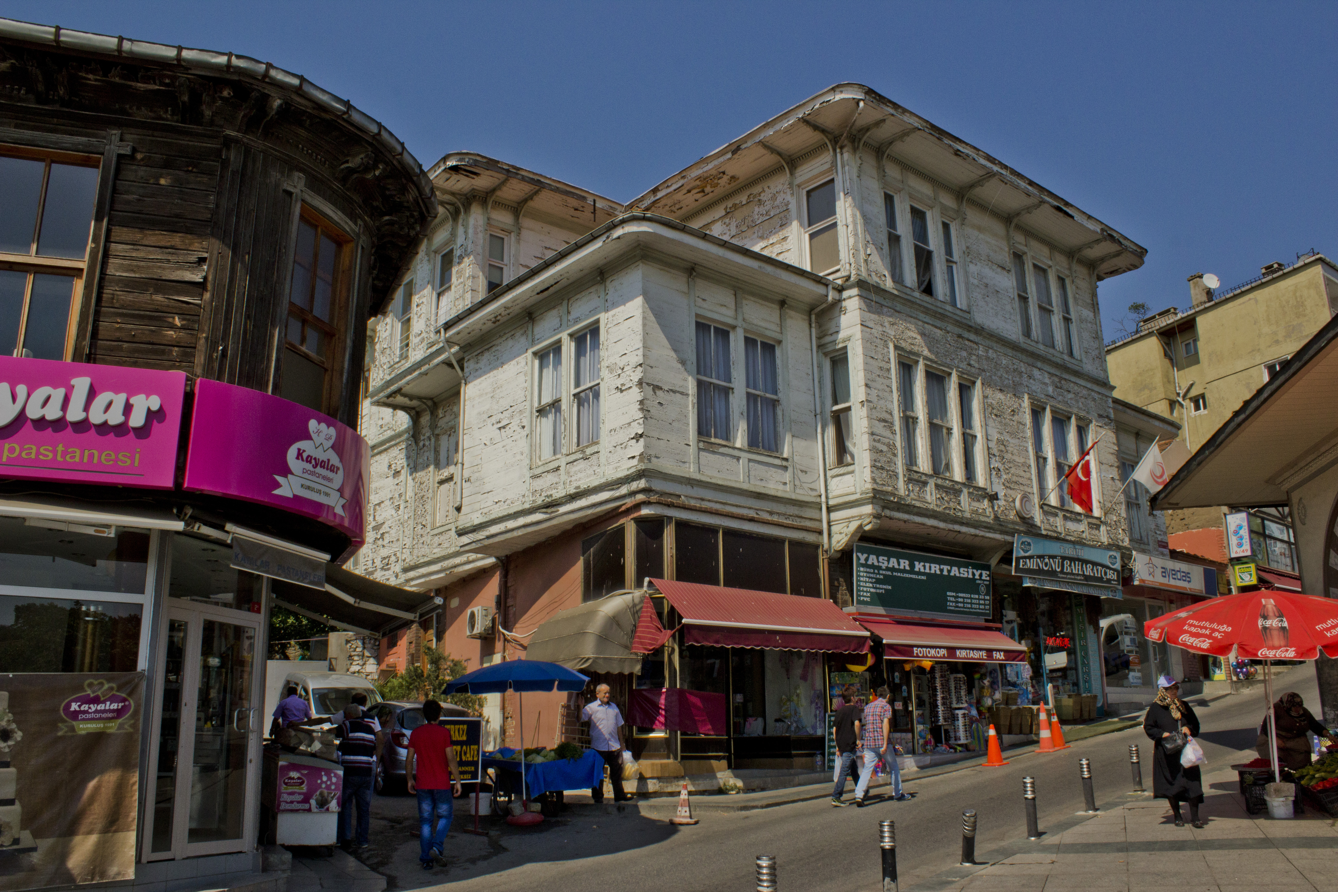 In the center of this former village on the Asian side of the Bosporus, Istanbul, Turkey.